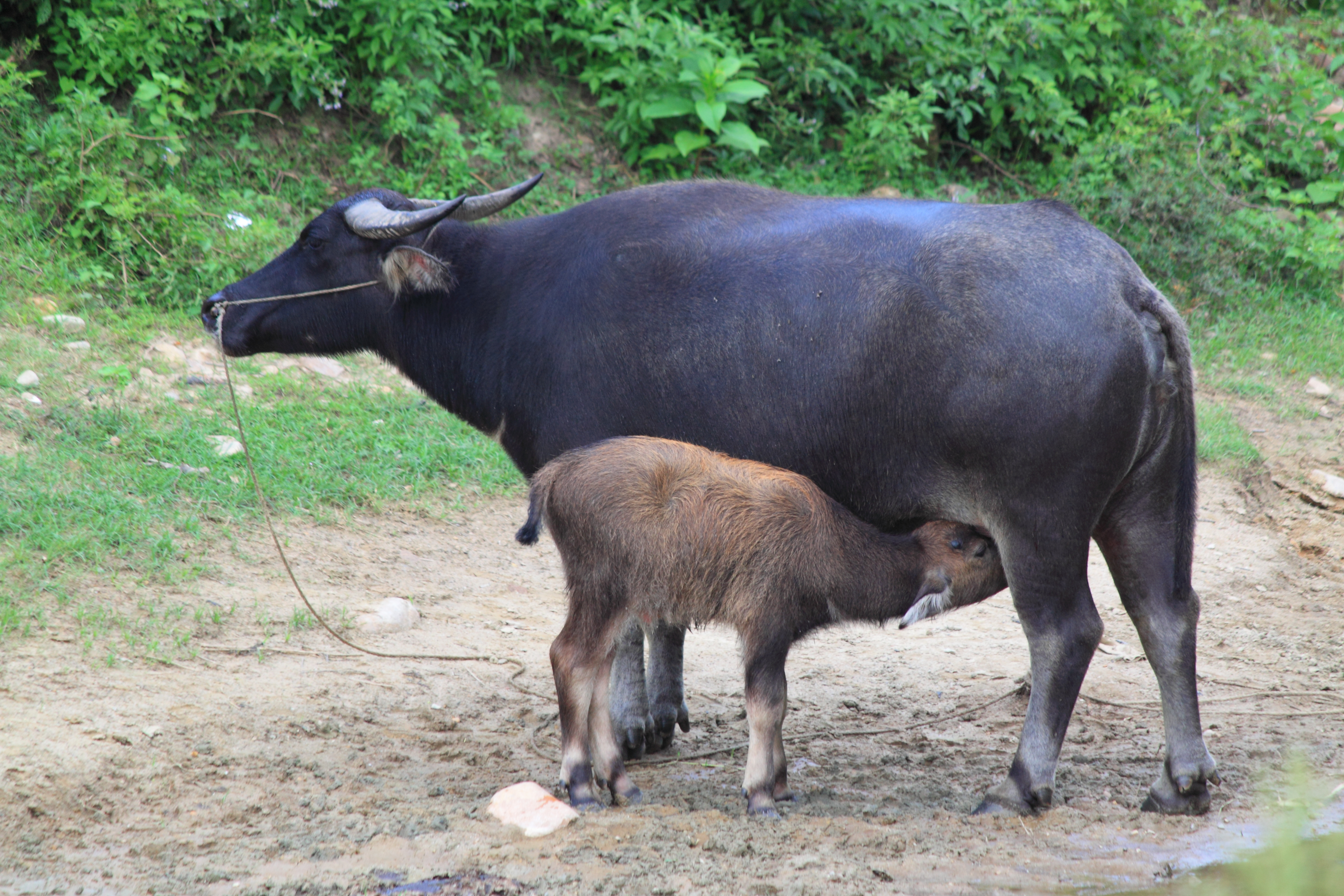 Water buffalo，in Wufu，Wuyishan City, Fujian, China.